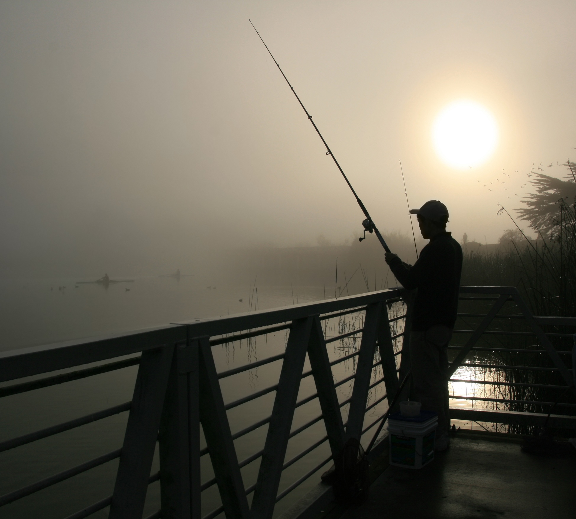 Fisherman at Lake Merced in San Francisco, Golden Gate National Recreation Area, (California, USA).